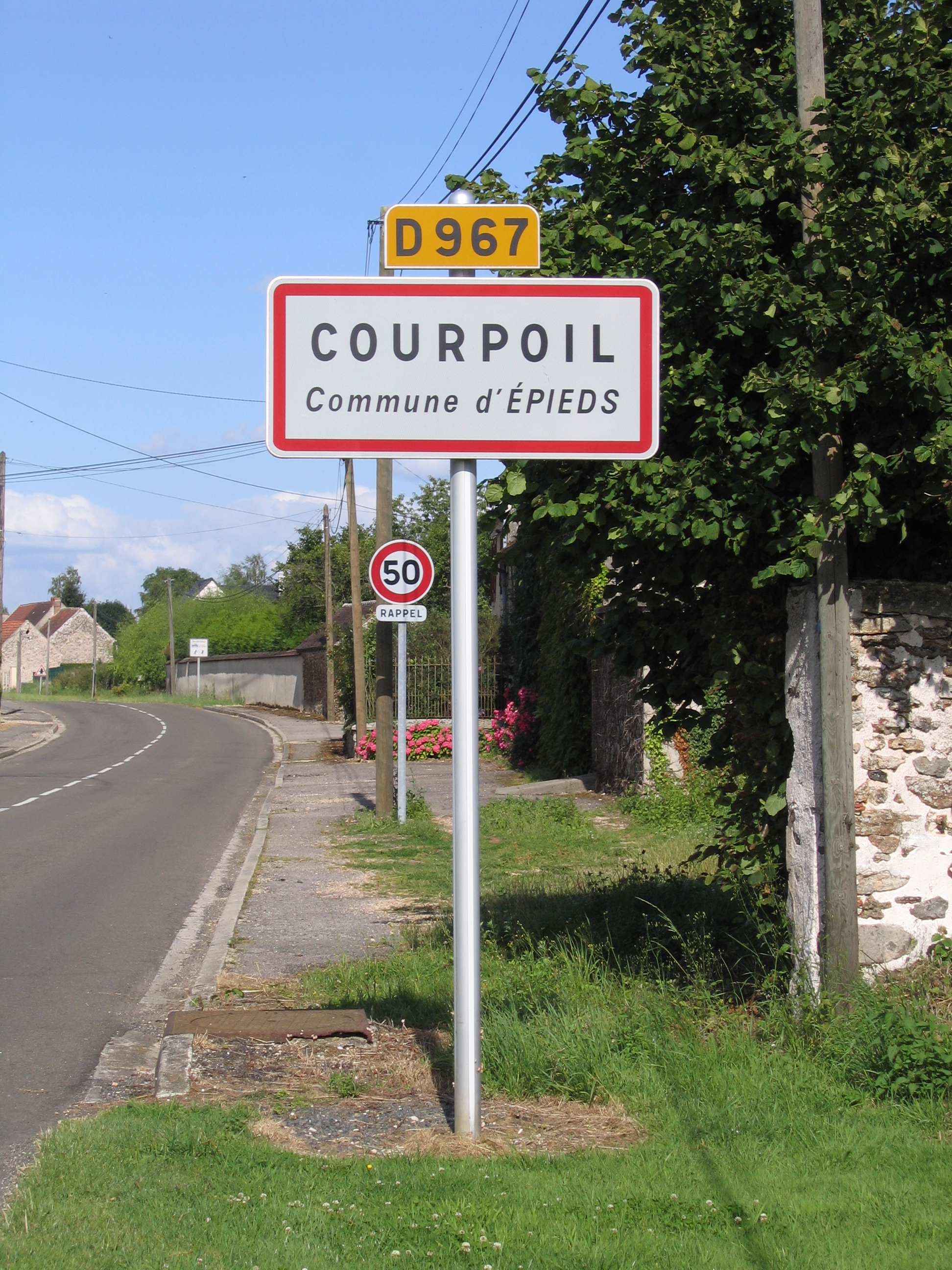 Courpoil, near Epieds, Aisne, France. The title is a pun in French, which could be translated approximatively as : "short hair near the foot, in the wool sock."